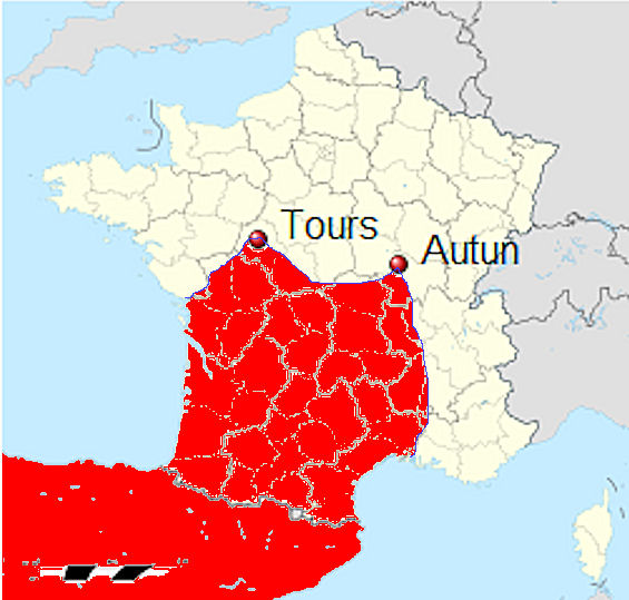 Islamic_expansion_in_France in the 8th century